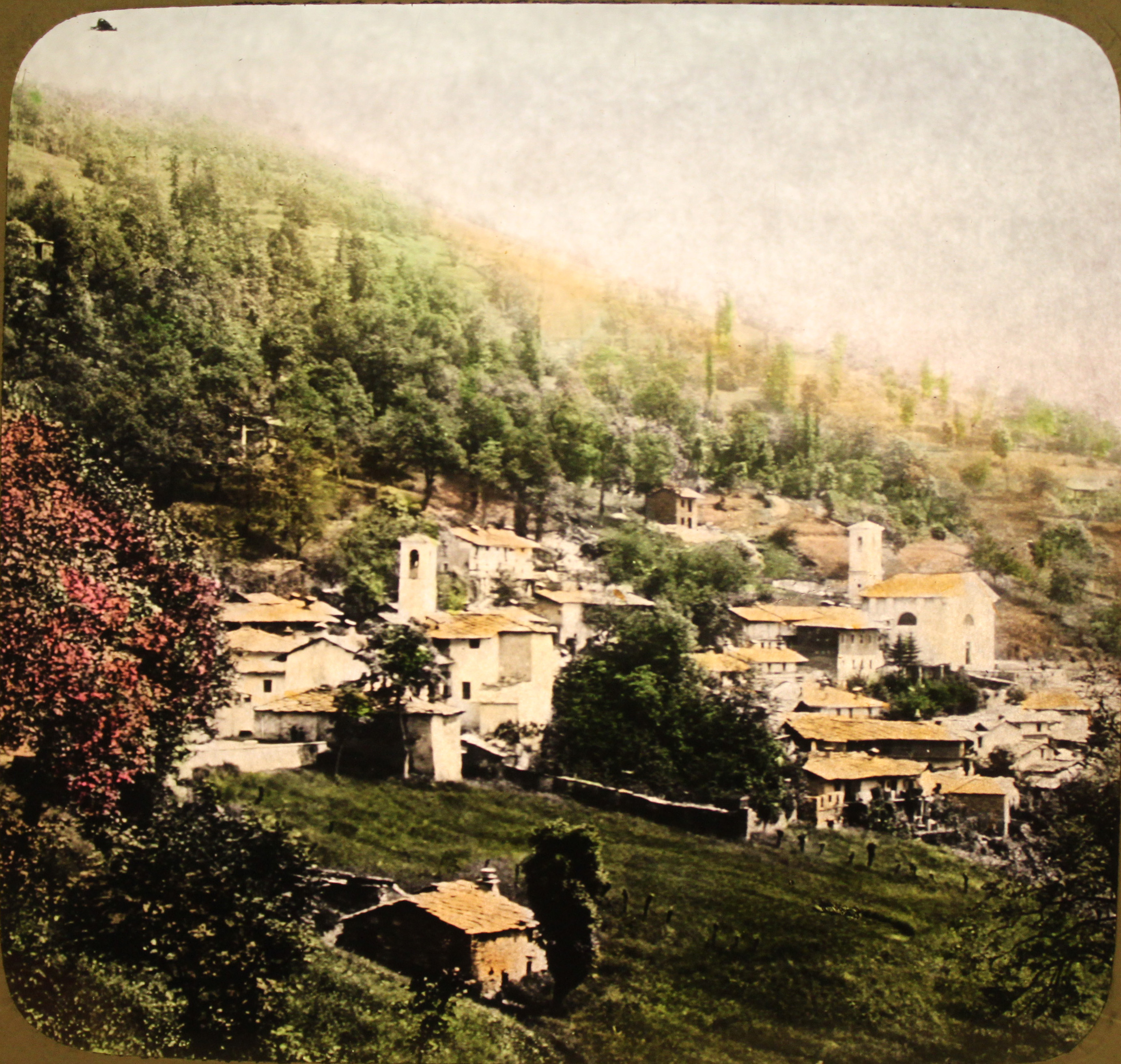 Waldensian Village of Rora